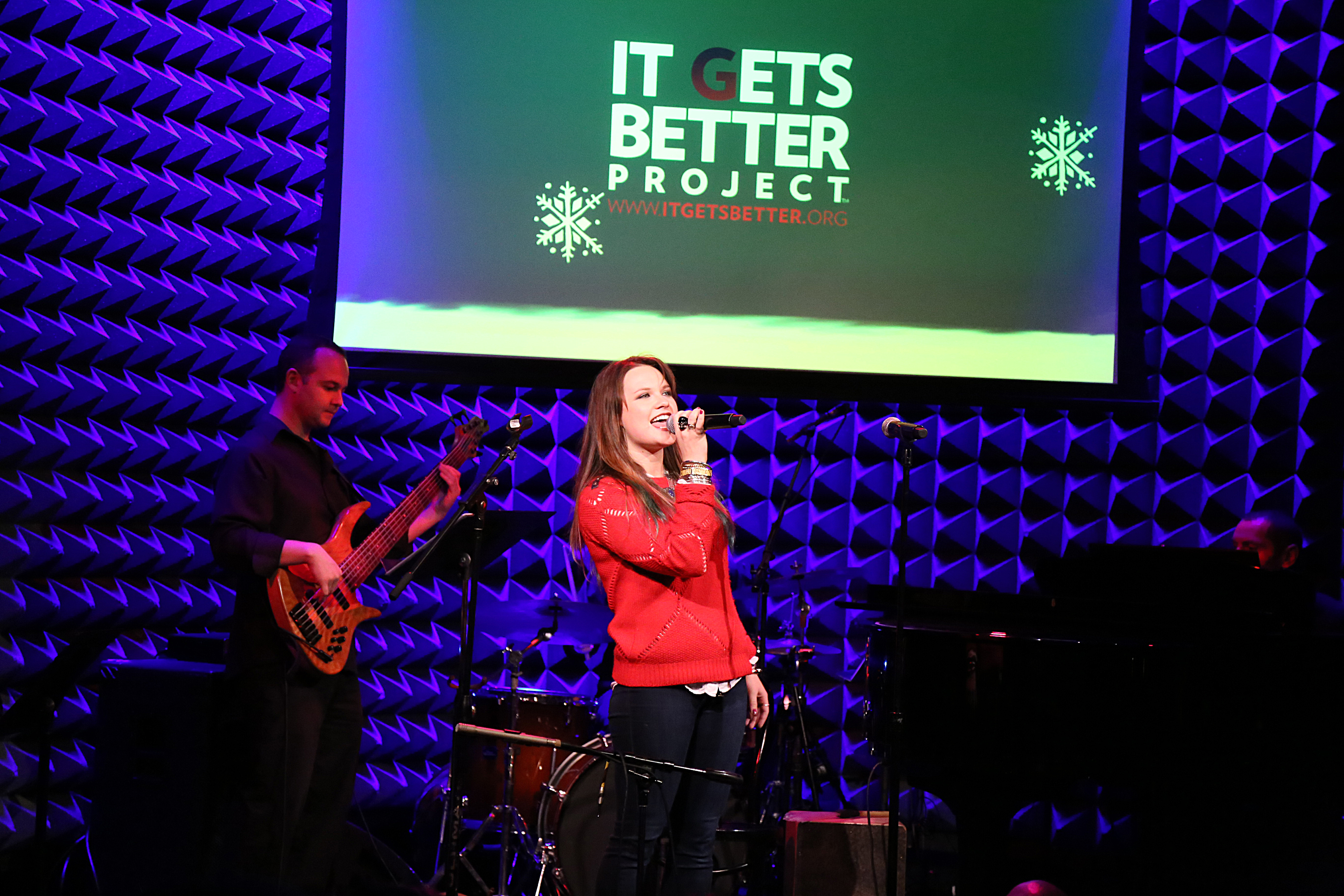 Lauren Pritchard (LoLo) on the It Gets Better Project Holiday Show 2014.